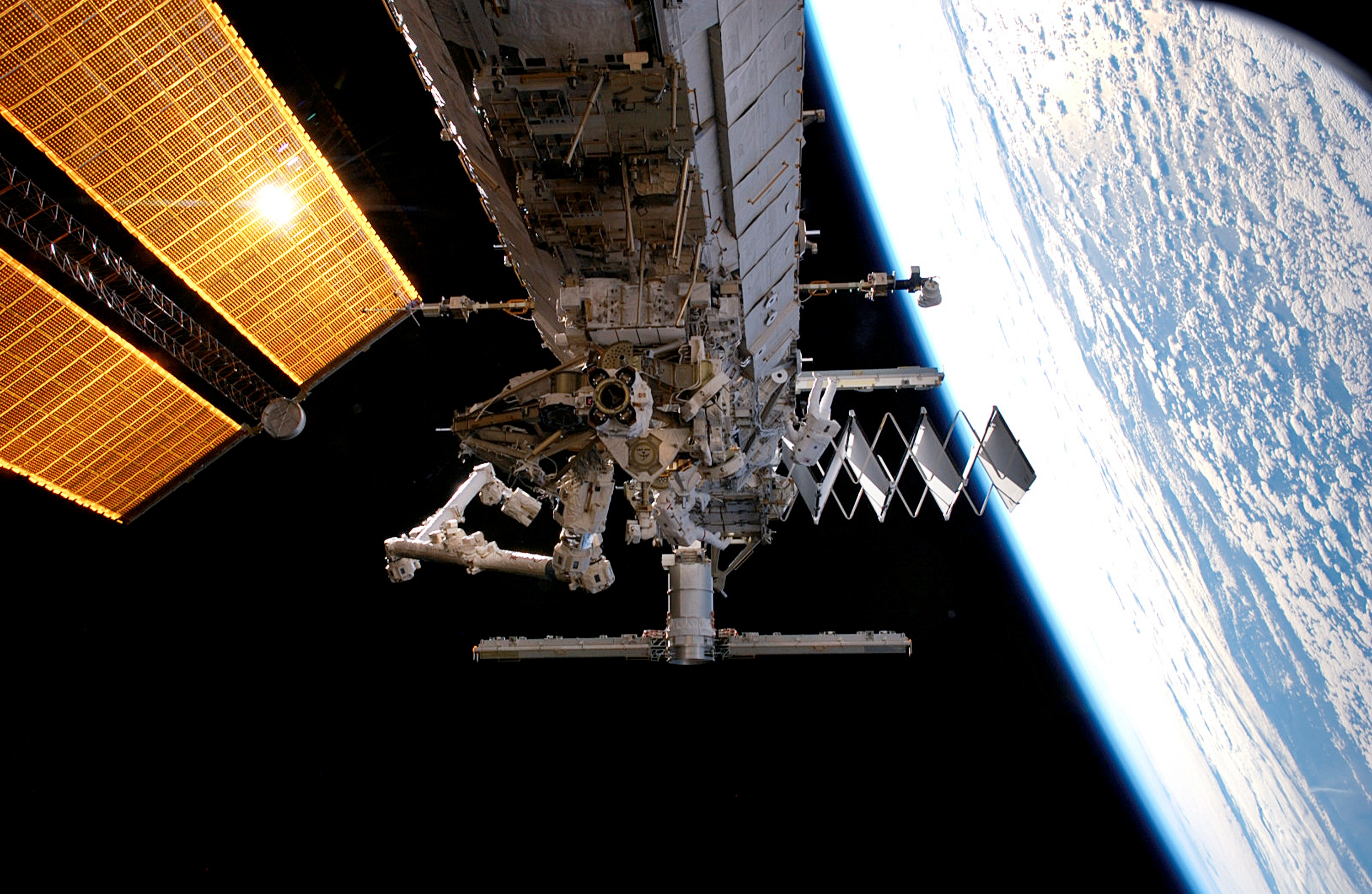 Astronauts Jim Reilly (left) and John "Danny" Olivas, both STS-117 mission specialists, participate in the mission's first planned session of extravehicular activity (EVA), as construction continues on the International Space Station. Among other tasks, Reilly and Olivas connected power, data and cooling cables between S1 and S3; released the launch restraints from and deployed the four solar array blanket boxes on S4 and released the cinches and winches holding the photovoltaic radiator on S4. Earth's horizon and the blackness of space provide the backdrop for the scene.